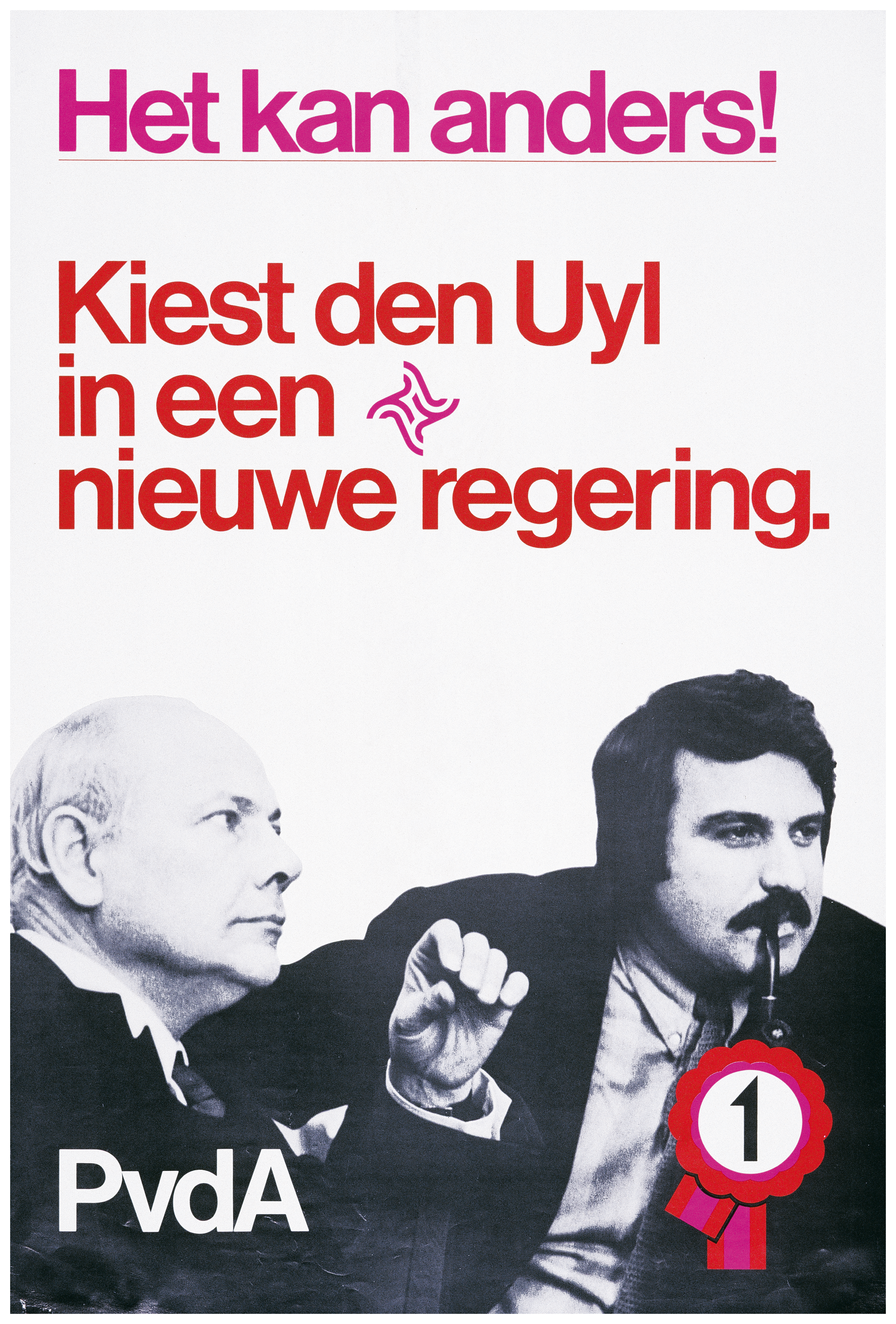 Dutch Labour Party campaing poster in the 1972 general elections